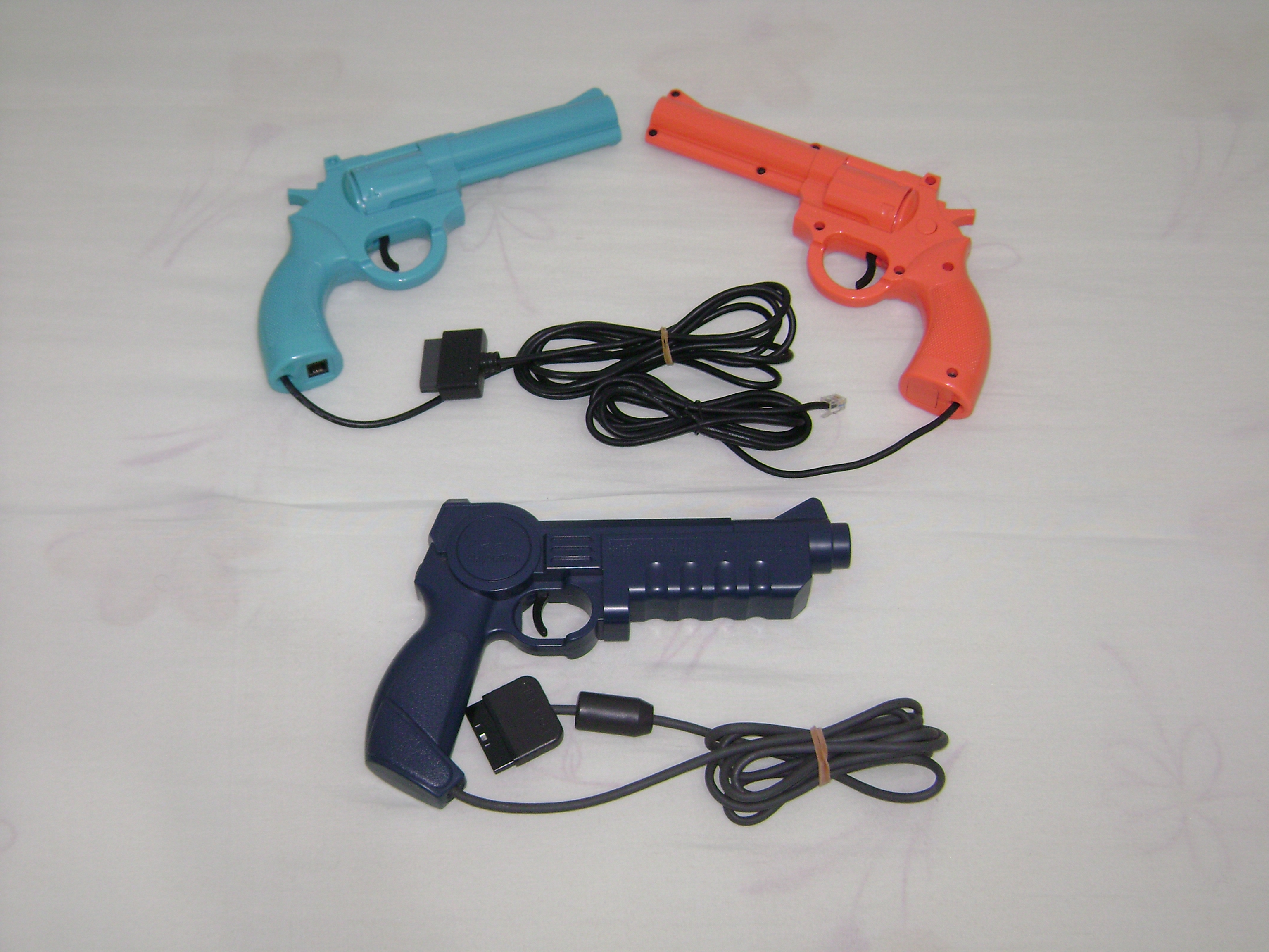 Konami Justifiers for the Super Famicom (above) and the Konami Hyper Blaster for the PlayStation (below).